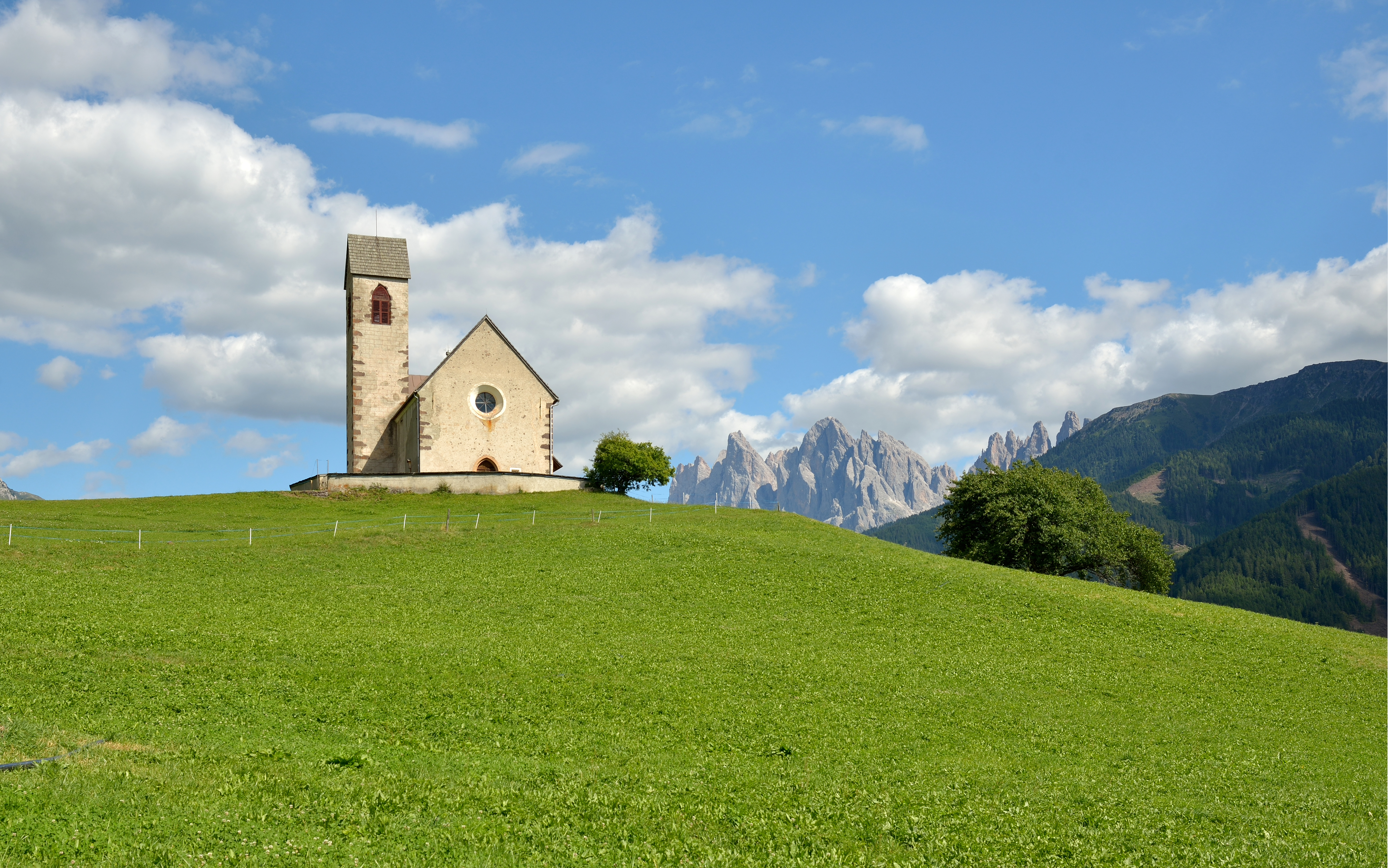 "St. Jakob am Joch" church in Villnöß